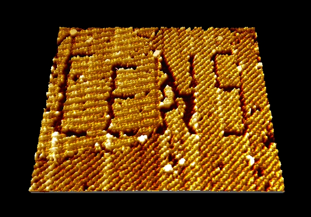 Scanning Tunnelling Microscope (STM) image of PTCDA molecules adsorbed on a Graphite surface. The logo of the Center for NanoScience (CeNS) in Munich, Germany, was written with the STM tip by reducing the tip-sample distance (compared to the imaging distance) and moving the tip along predefined vectors (nanomanipulation paths). This action removed molecules from the adsorbate layer along the manipulation paths. Line width of the STM written Logo: 1-3 nm. Image processing Software: SPIP; 3D enhancement was applied.